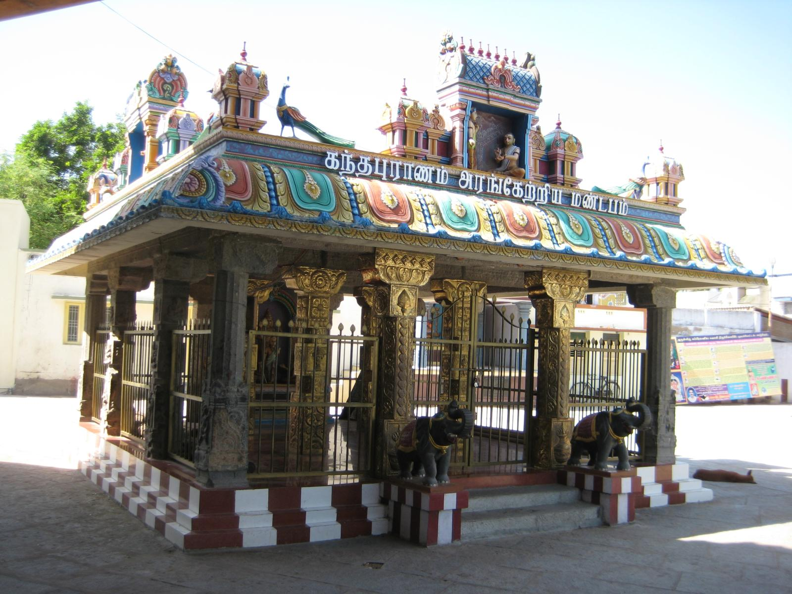 Mandapam (Hall) in the Kumarakottam Temple complex where the epic Kantha puranam was reslesed